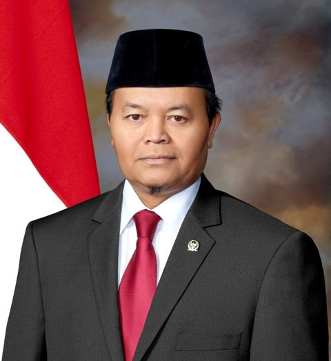 Hidayat Nur Wahid as Deputy of People's Consultative Assembly